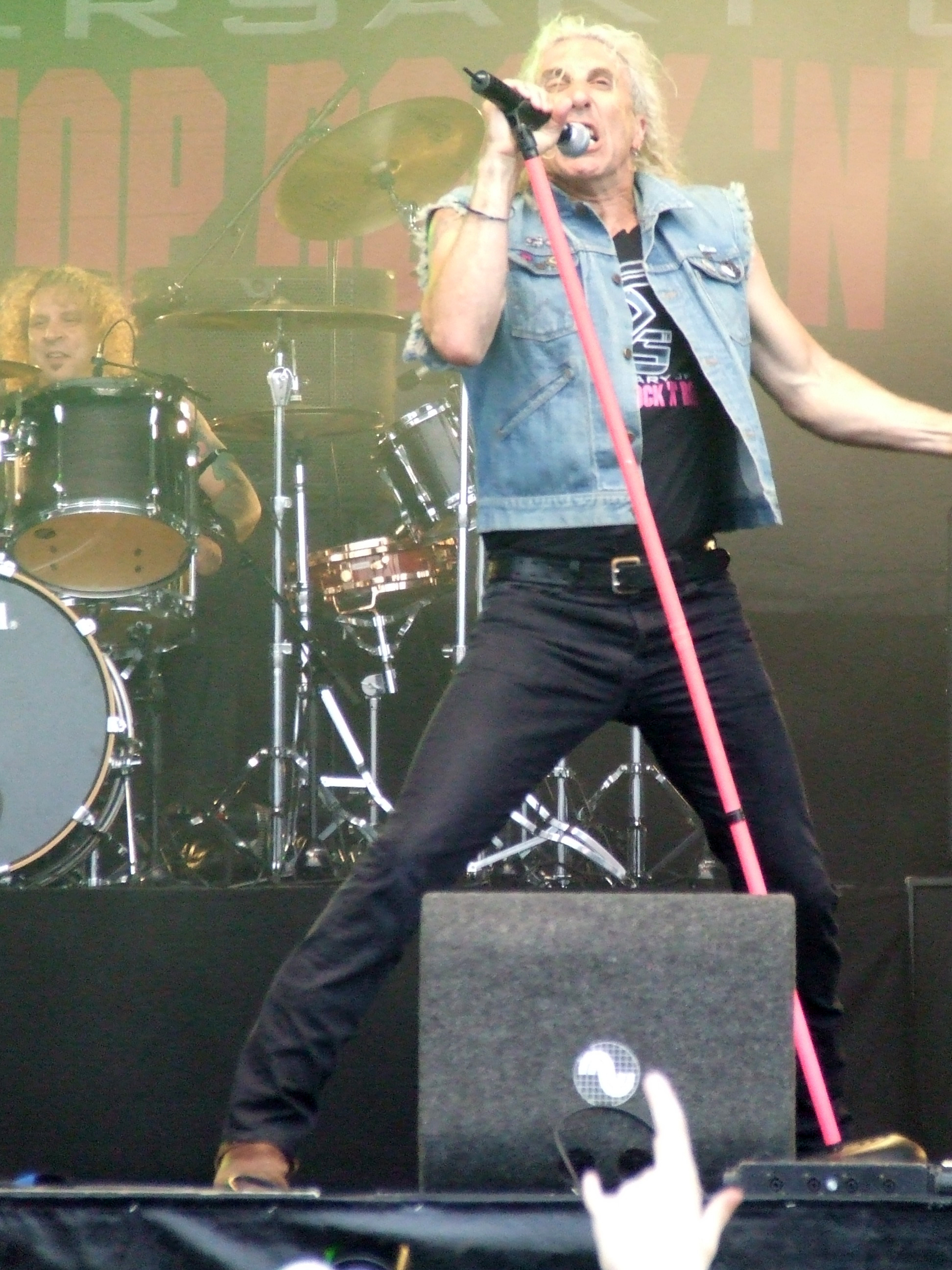 Dee Snider, frontman and singer of the band Twisted Sister performing live at the Arrow Rock Festival in the Netherlands